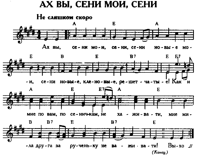 Ah vy seni - Musical notes